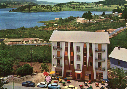 Lorica - postcard from the 1960ies